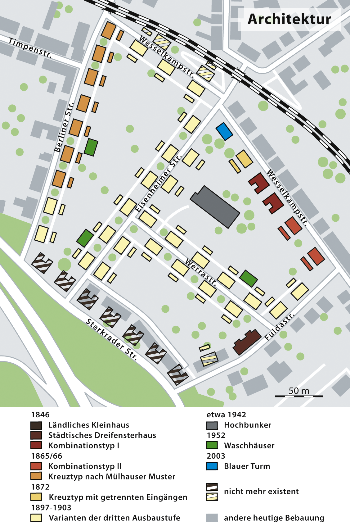 Architecture in Siedlung Eisenheim, Oberhausen, Germany